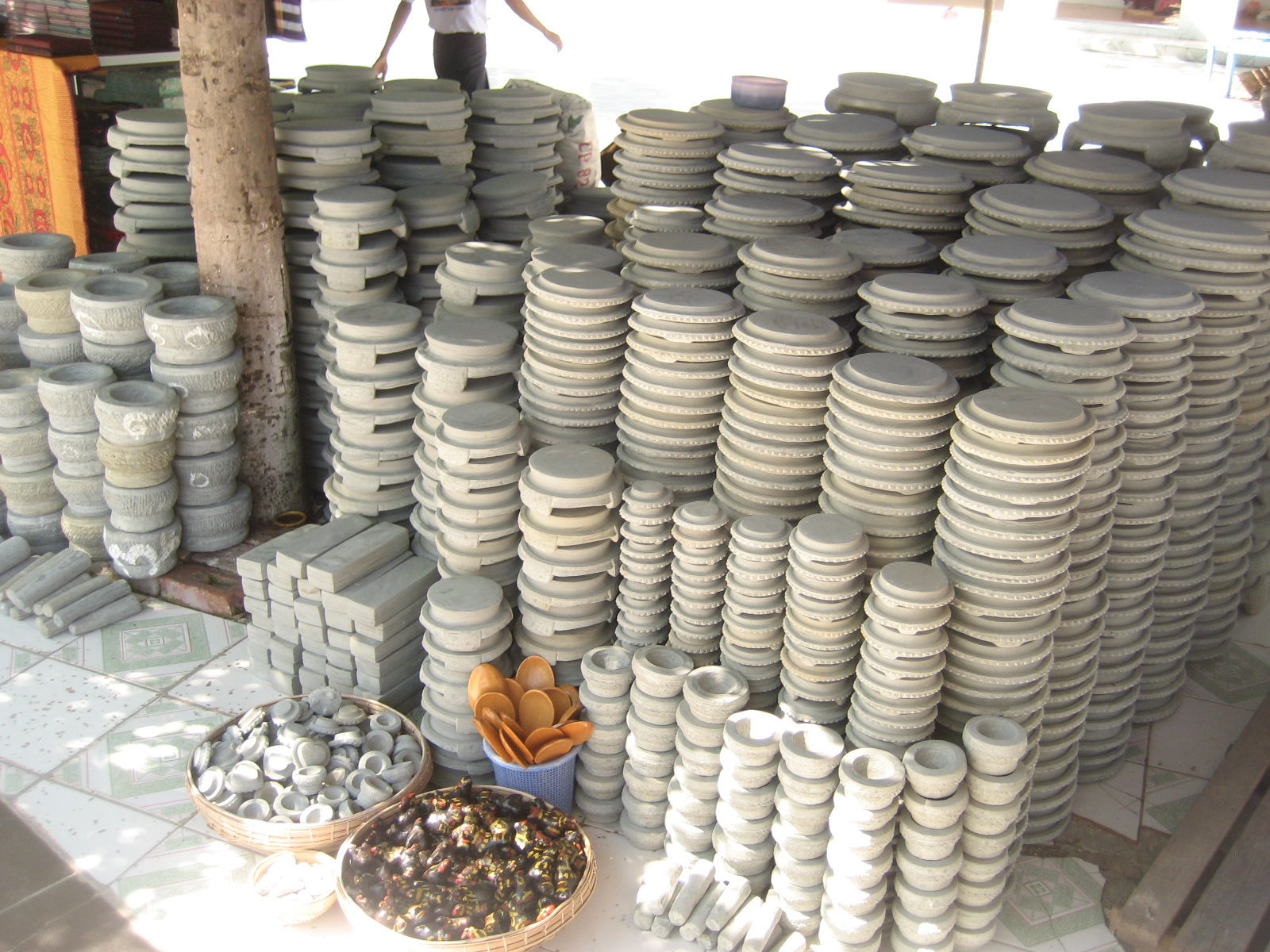 Kyauk pyin stone slabs for grinding thanaka tree-bark cosmetic at a pagoda market in Sagaing, Myanmar